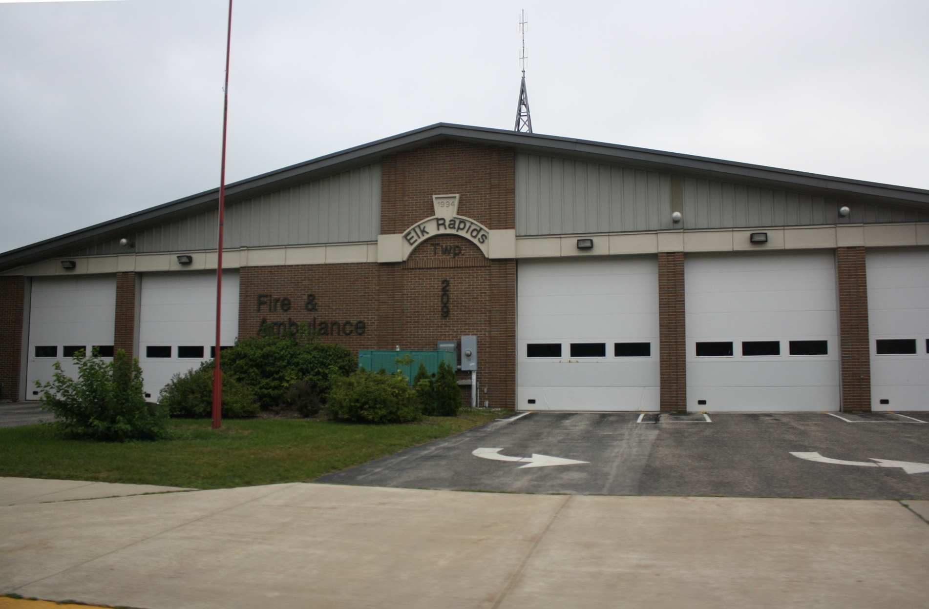 The fire and ambulance building for Elk Rapids Township, Michigan.